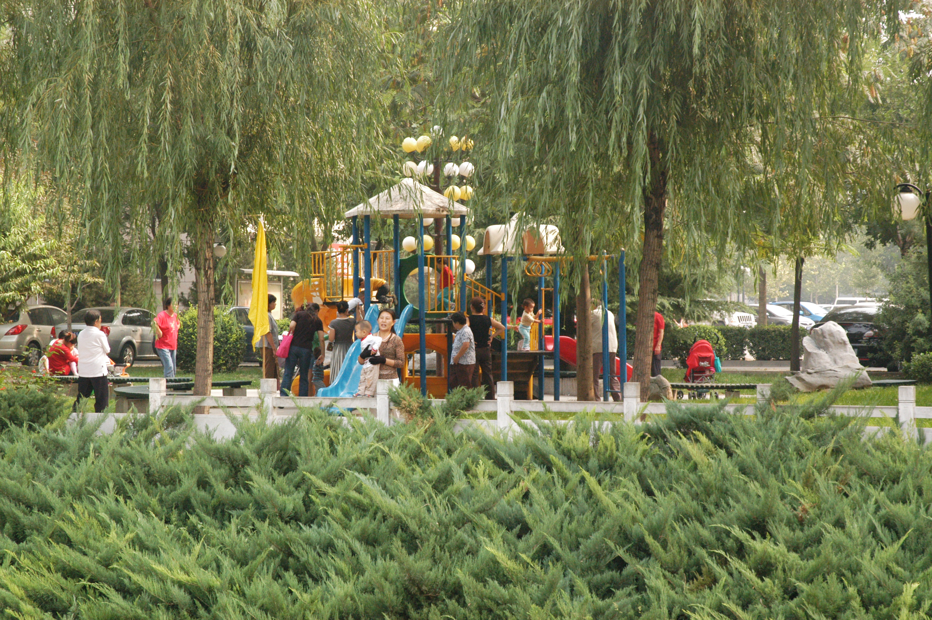 Beijing community children's playground.